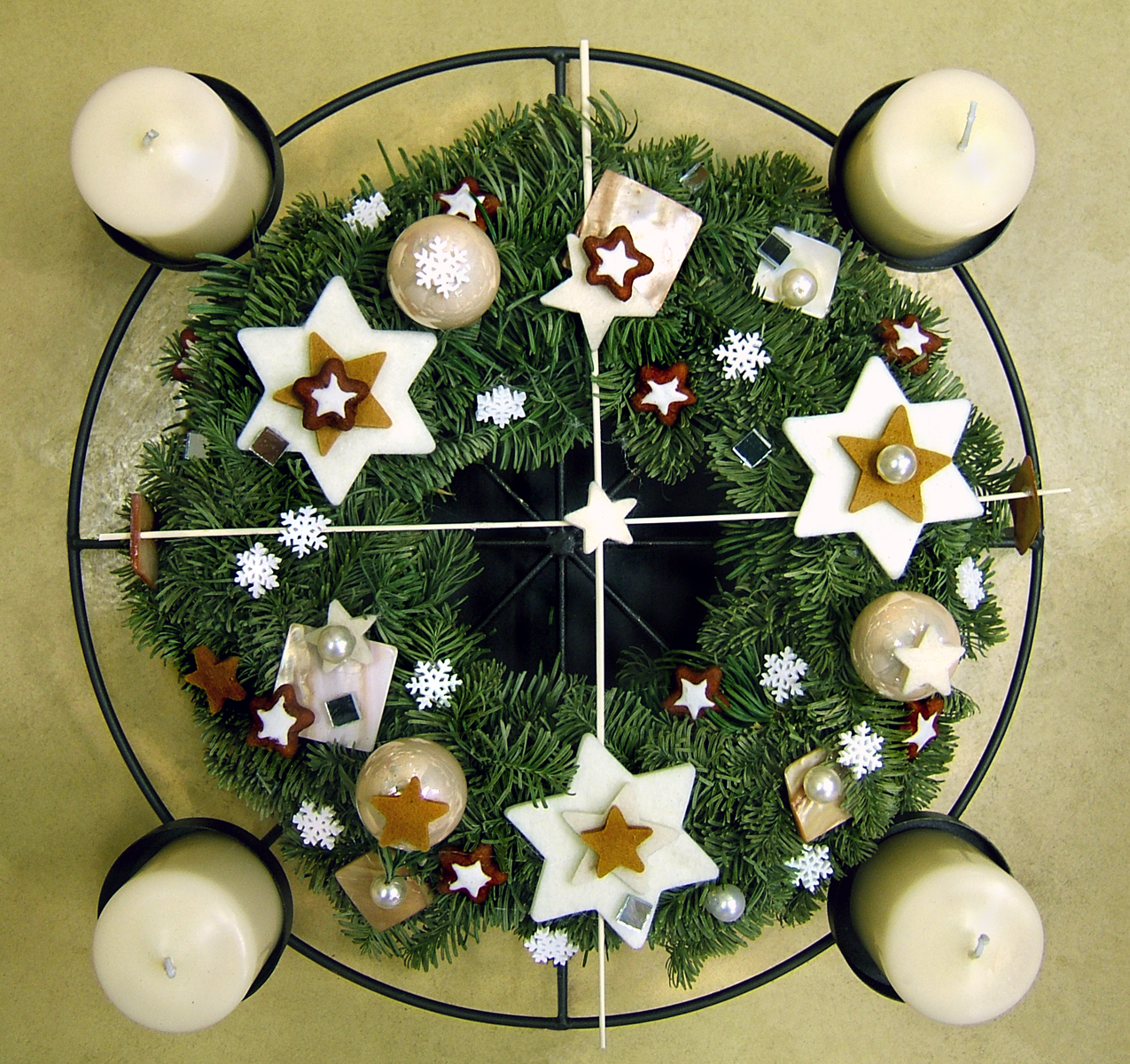 Advent wreath.Photo taken with friendly permission at "Blumenpavillon am Viadukt" in Weinstadt, Germany.